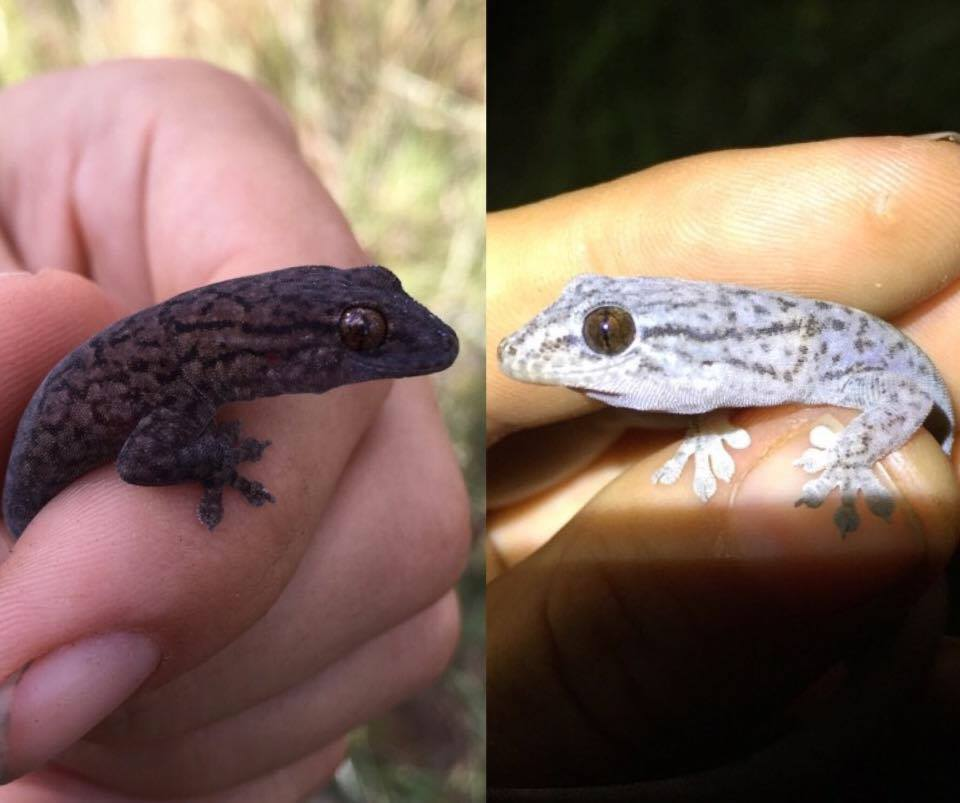 different shape of gehyra variegata